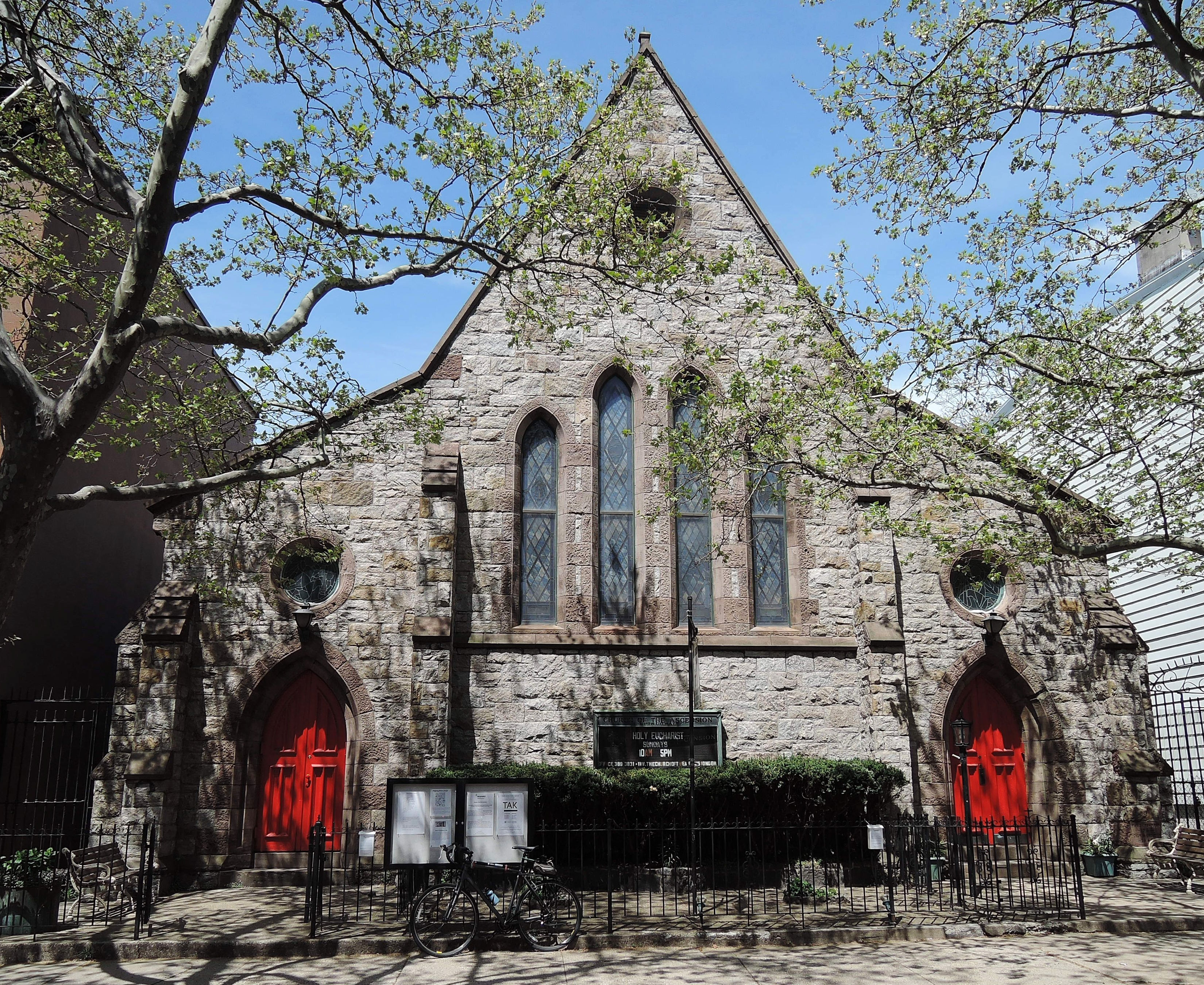 Looking north at Church of Ascension on a cloudy day.